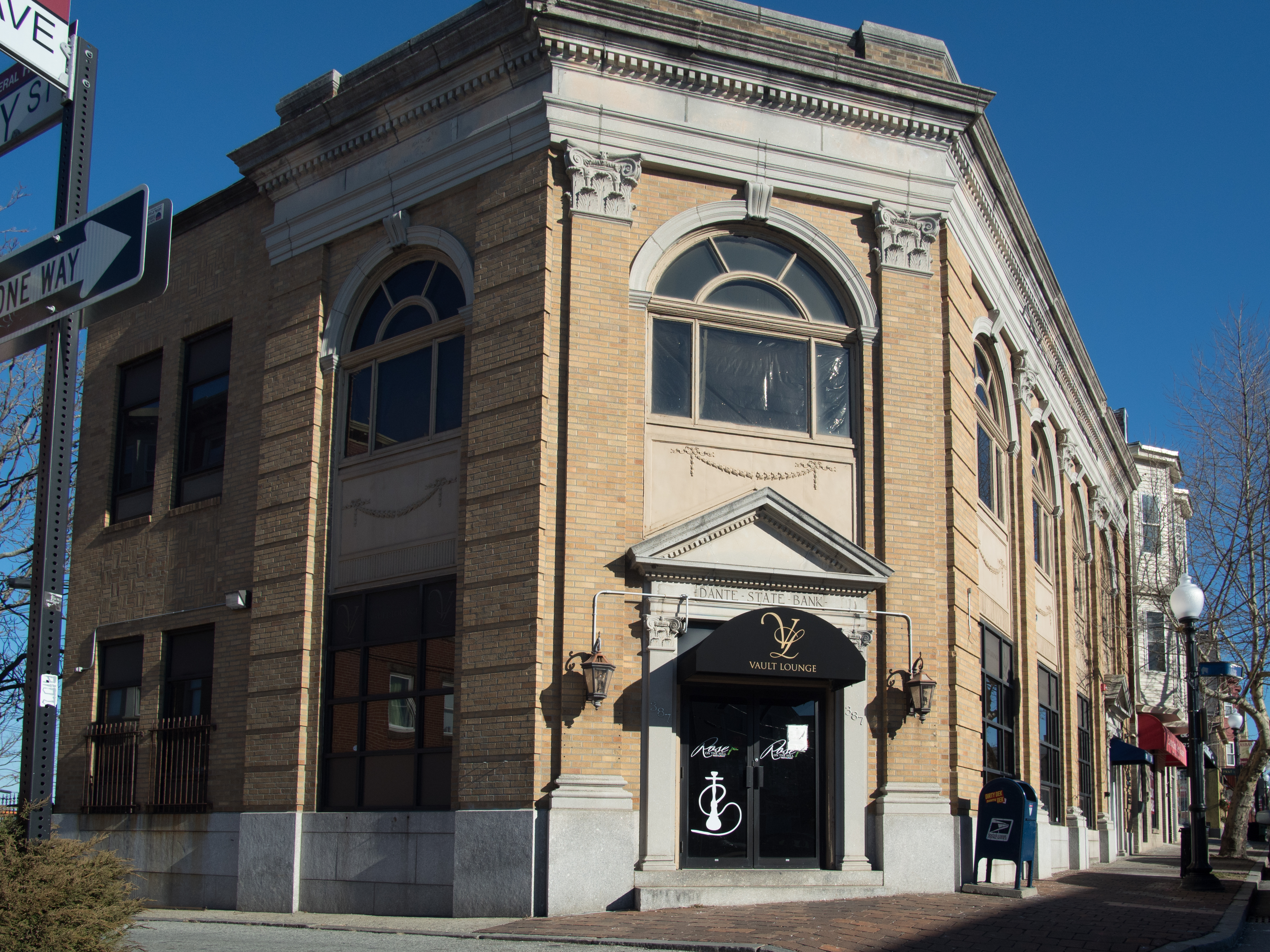 Vault Lounge on Atwells Avenue in Providence, Rhode Island. Former home of Heritage Loan & Investment.